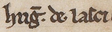 An excerpt from folio 27v of British Library Cotton MS Faustina B IX (the Chronicle of Melrose). The excerpt refers to Hugh de Lacy, Earl of Ulster (died 1242). The excerpt concerns the record of Hugh's capture of John de Courcy.